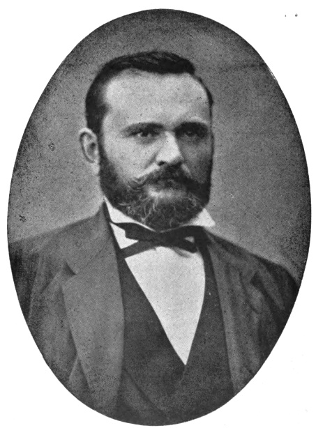 Portrait of the Occitan writer Anfós Tavan